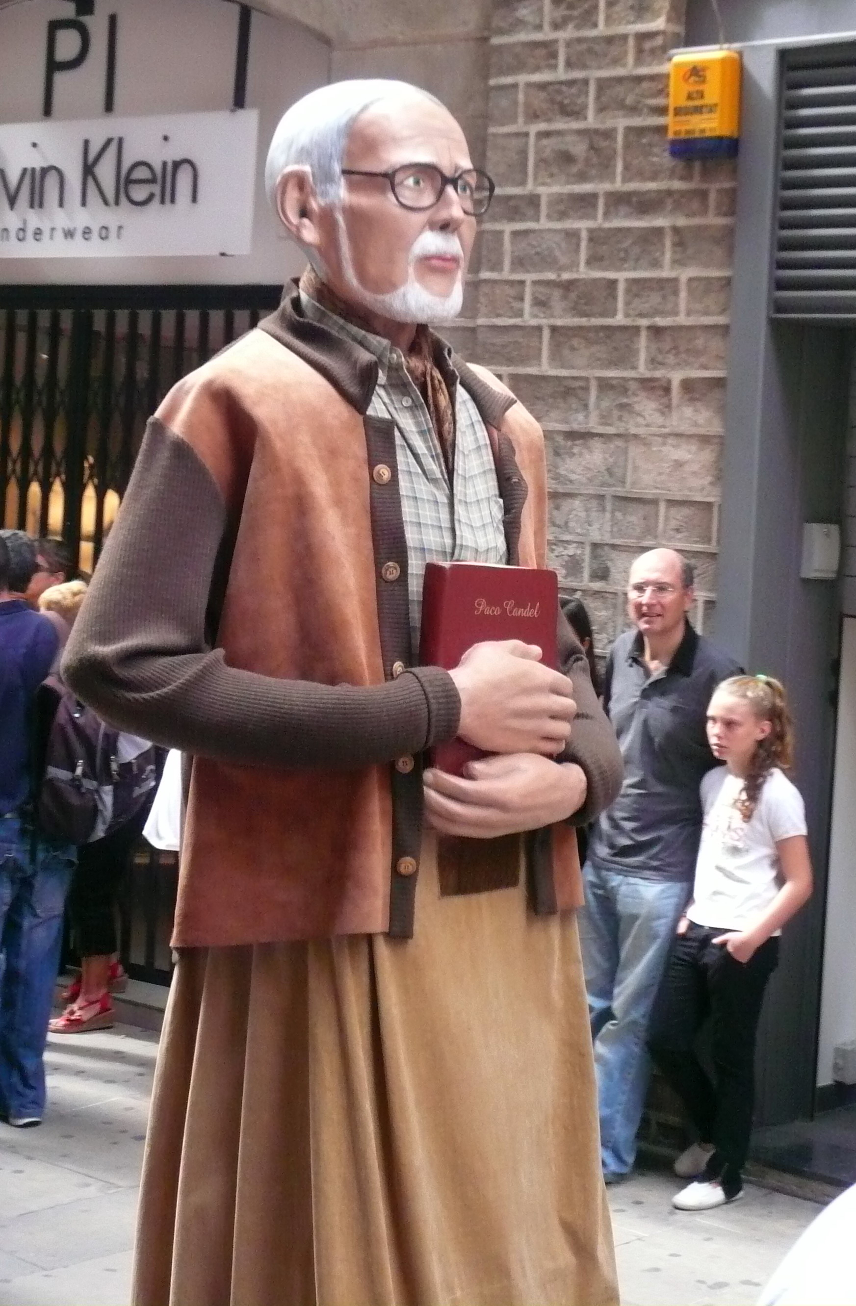 "Gegantó" depicting writer Paco Candel in Barcelona